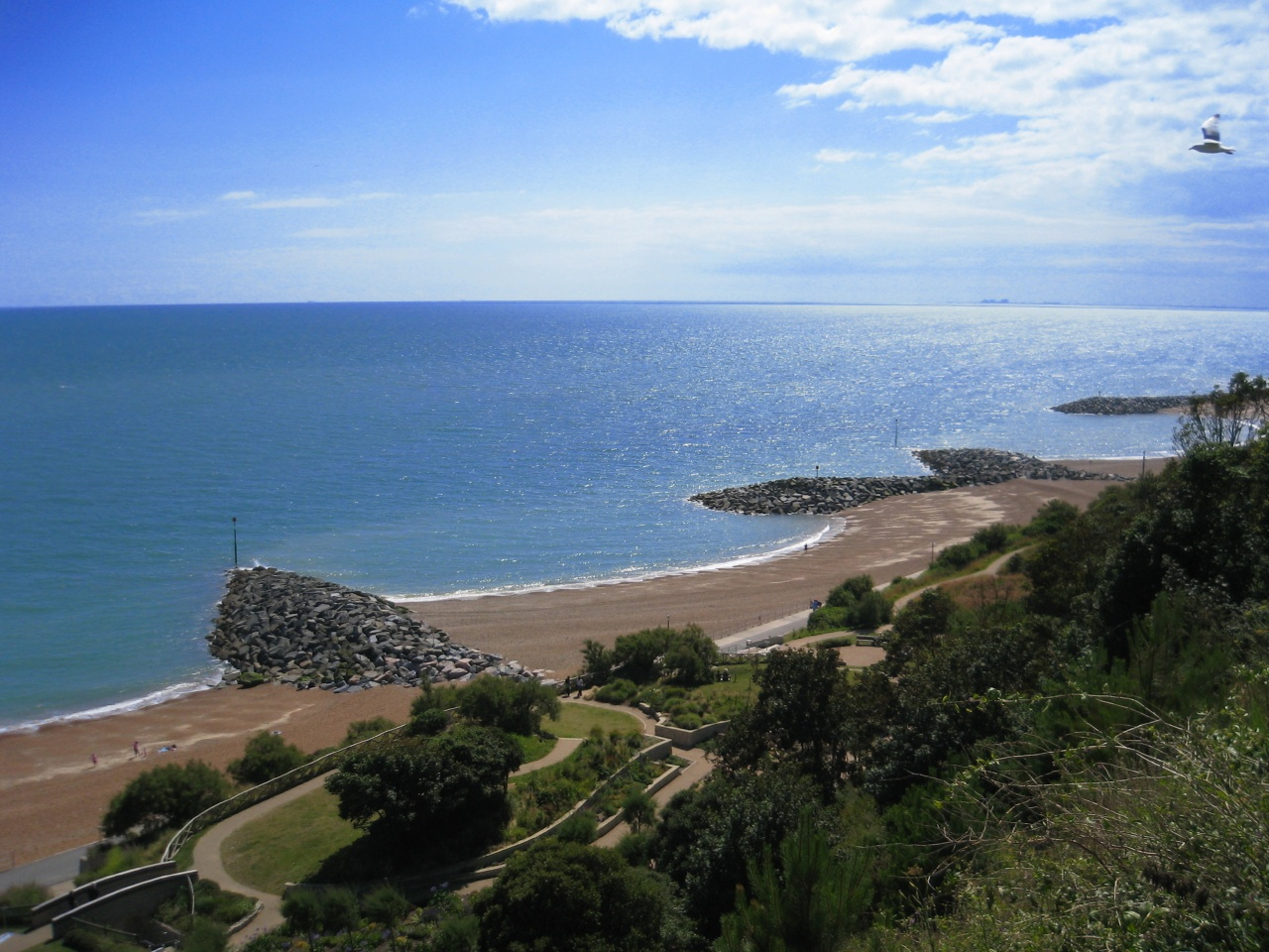 Folkestone beach and the Coastal Park from the Leas Cliff Hall